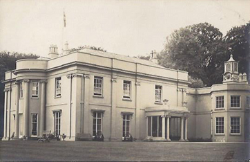 Annery House, Monkleigh, Devon. Photograph early 20th century. Similar view published in Lauder, Rosemary, Vanished Houses of North Devon, Tiverton, 2005, p.20, with flag flying in different position